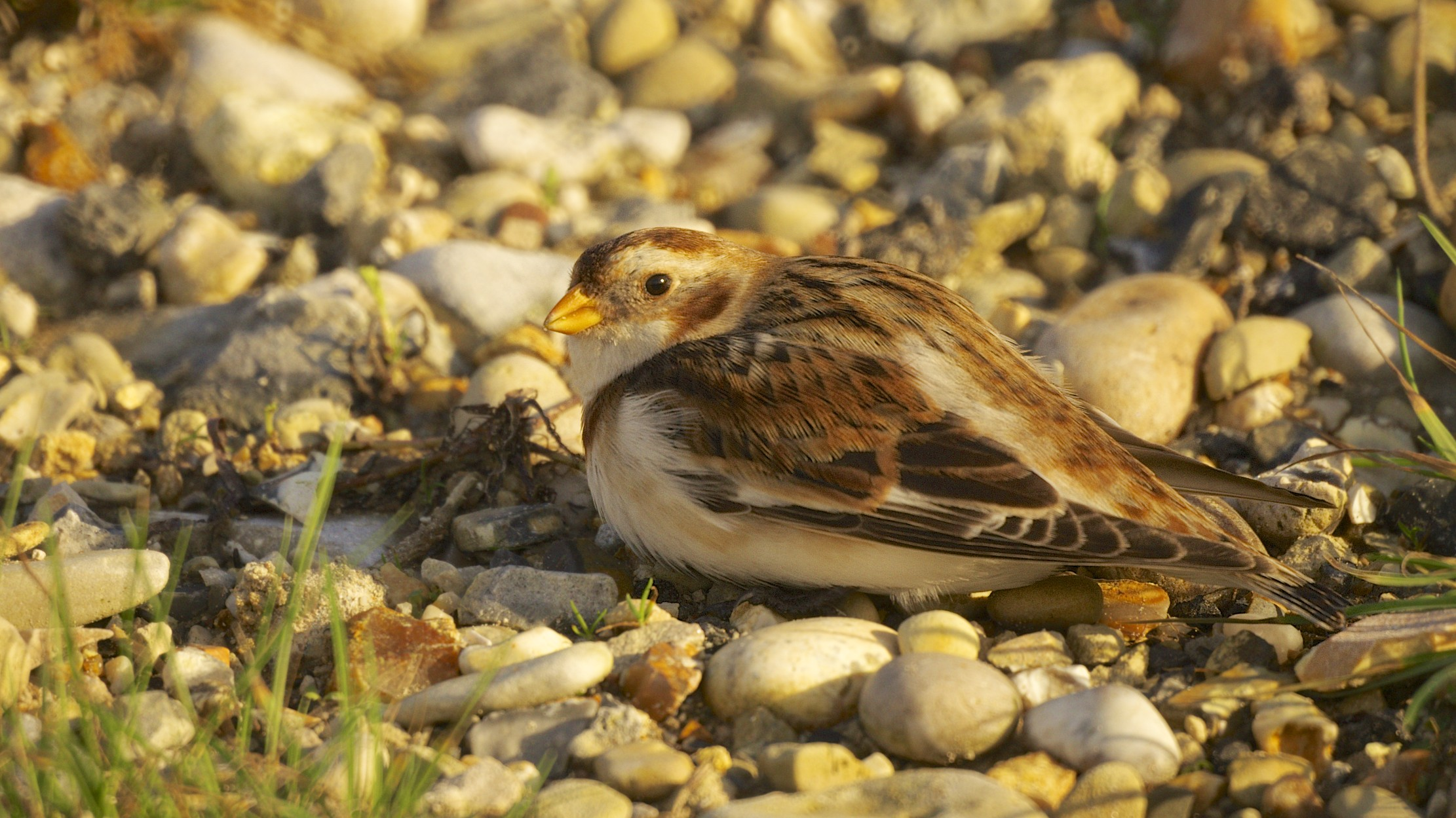 A Snow Bunting in Weymouth, Dorset, England.